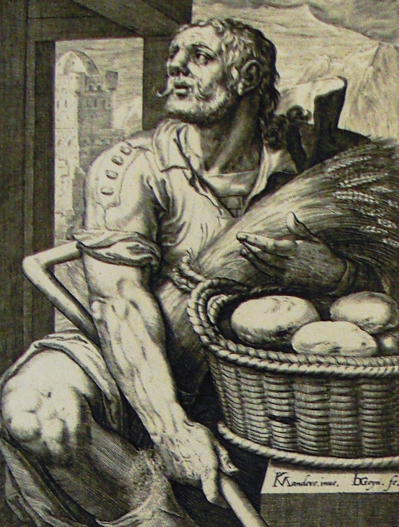 A print from the Phillip Medhurst Collection of Bible illustrations in the possession of Revd. Philip De Vere at St. George’s Court, Kidderminster, England.